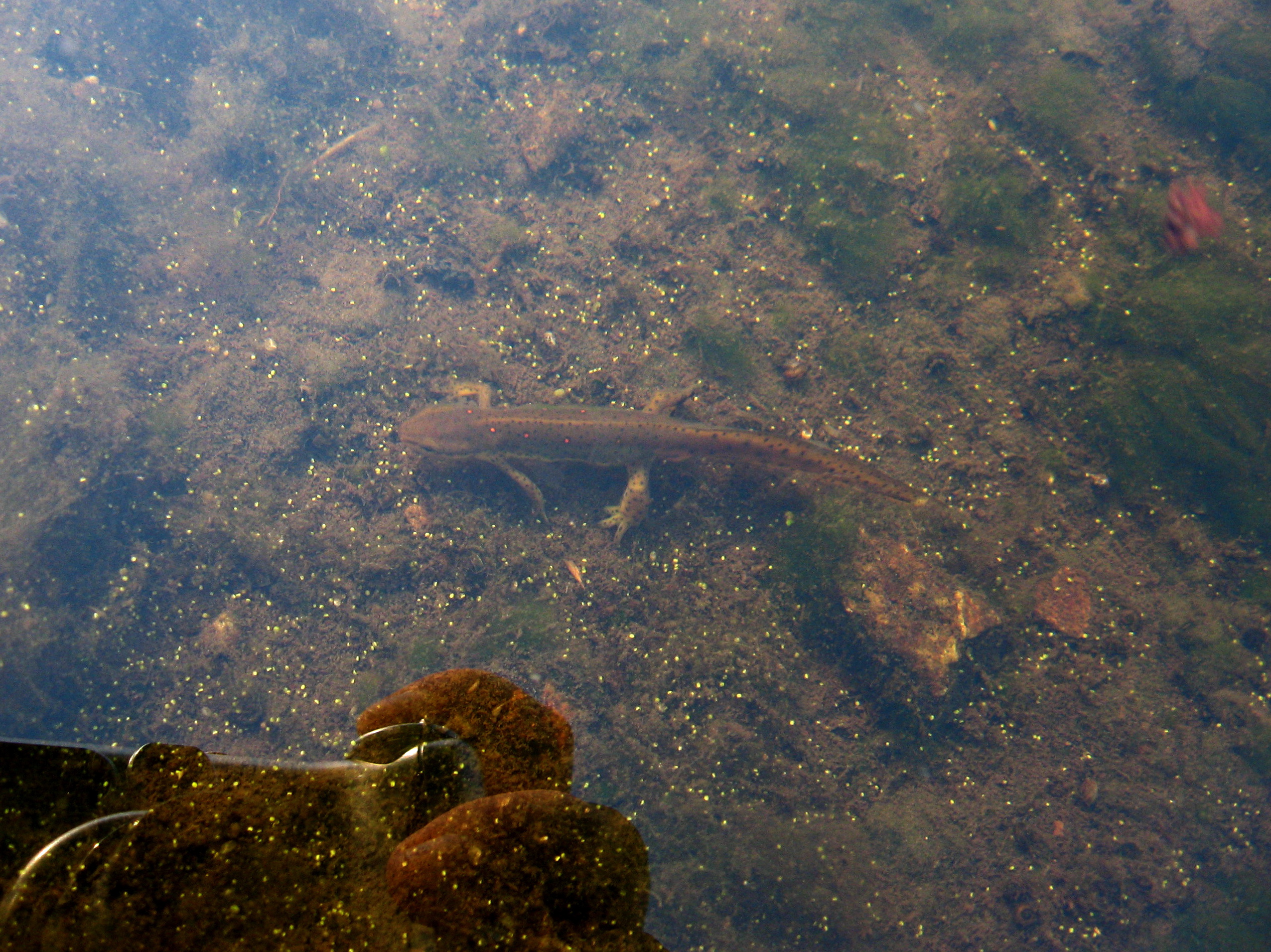 a salamander at Frances Slocum State Park